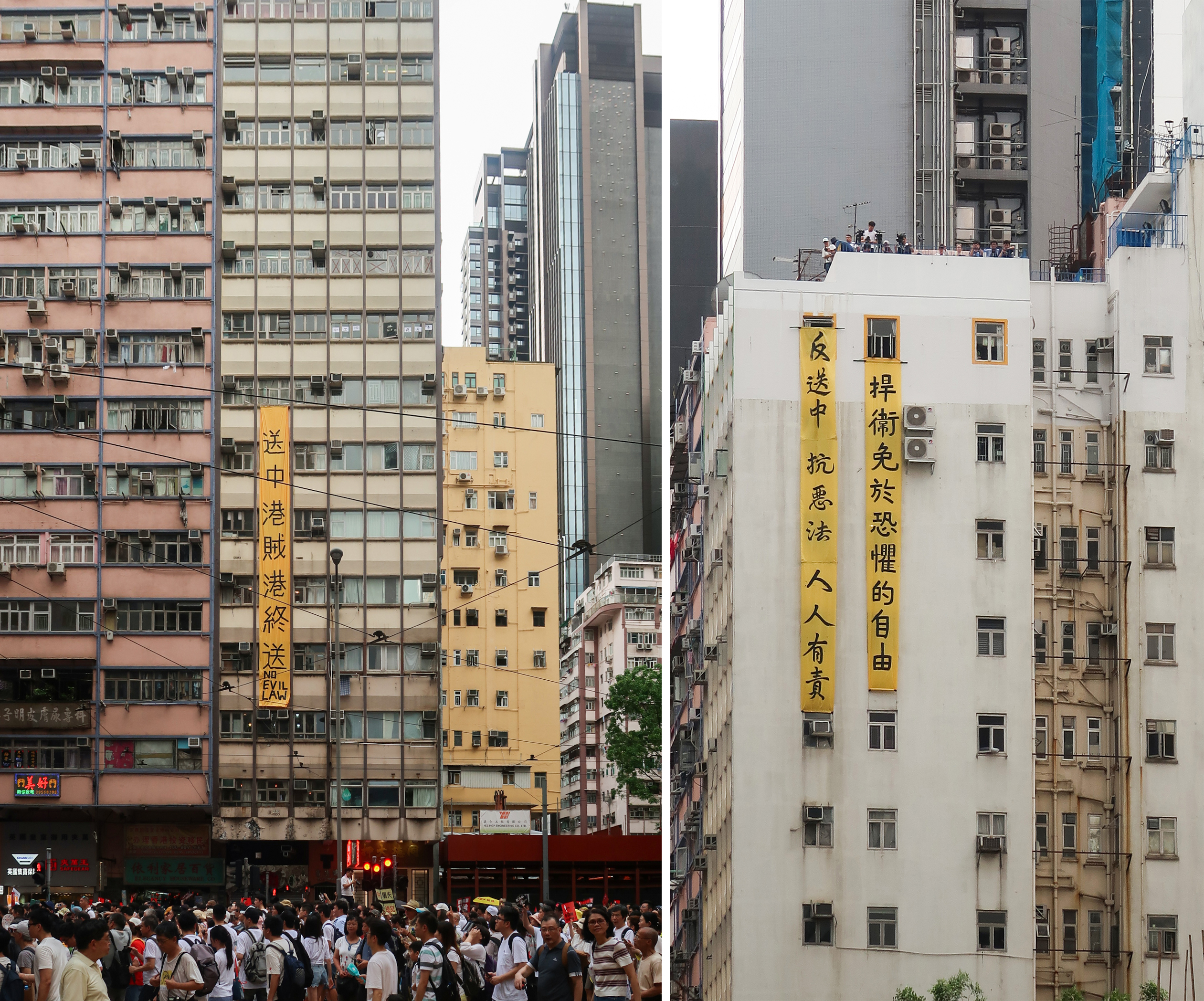 Foo Tak Building Banner against extradition bill